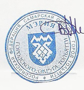 State seal for the documents of the Administration of the city of Tolyatti